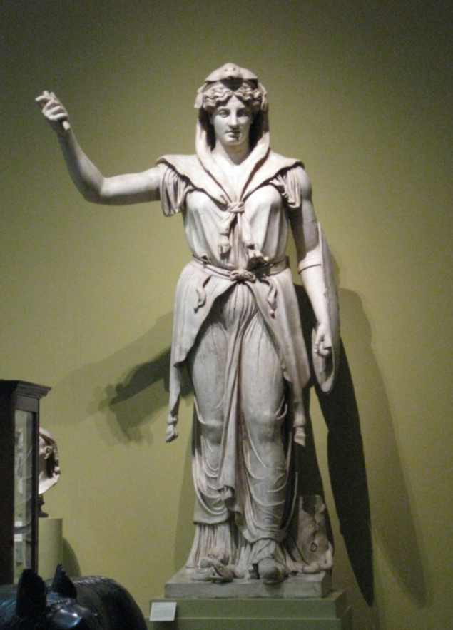 Roman statue Juno Sospita. Plaster cast in pushkin museum after original in vatican museums